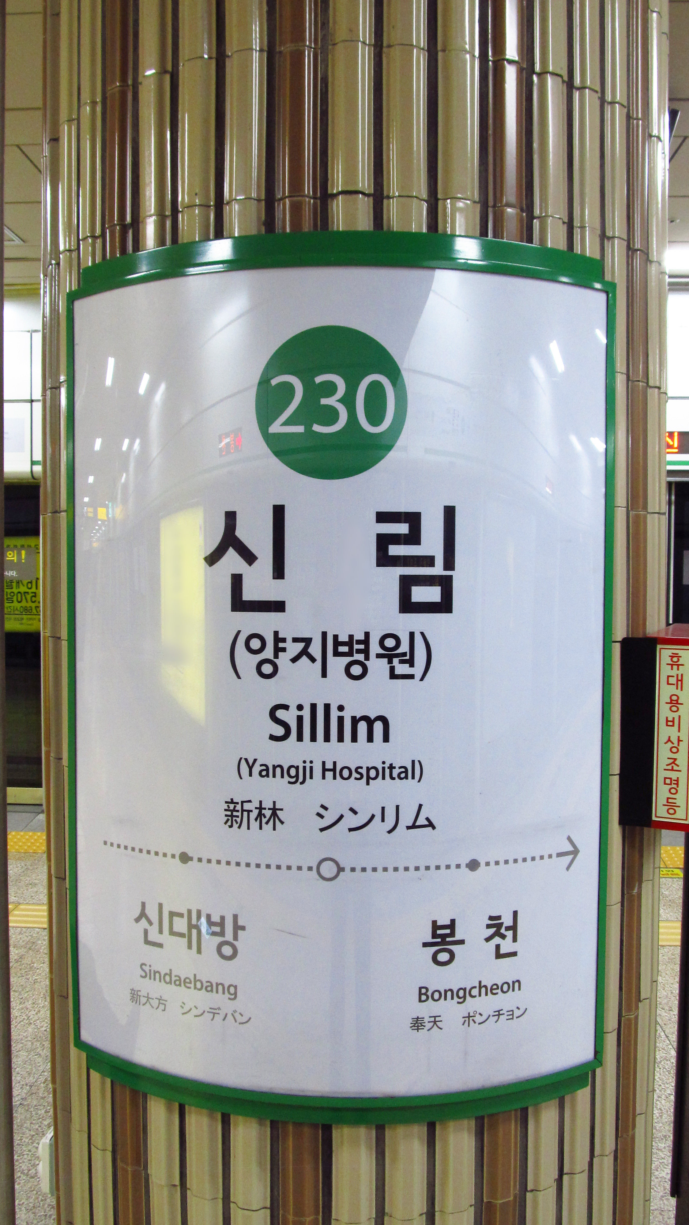 A sign of Sillim Station on Seoul Subway Line 2